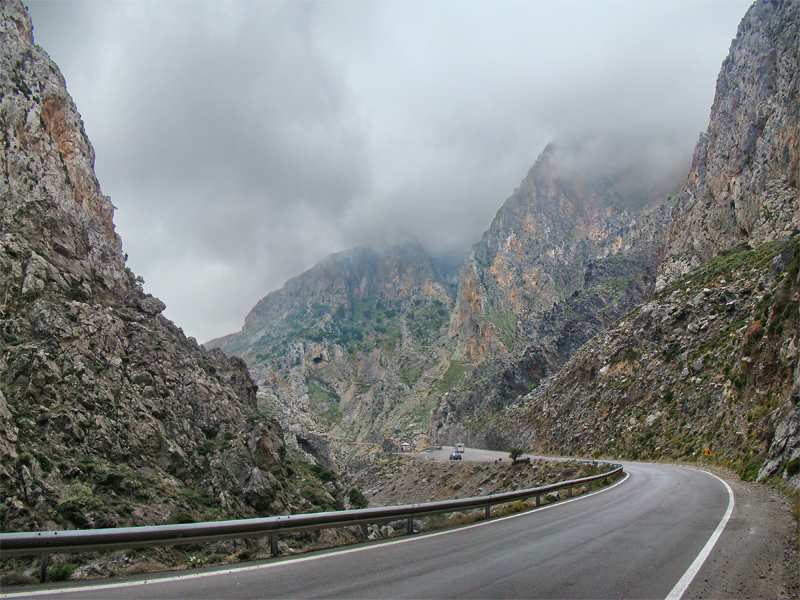 Kourtaliotiko Gorge, Crete, Greece. On the road southward from Koxare to Asomatos.